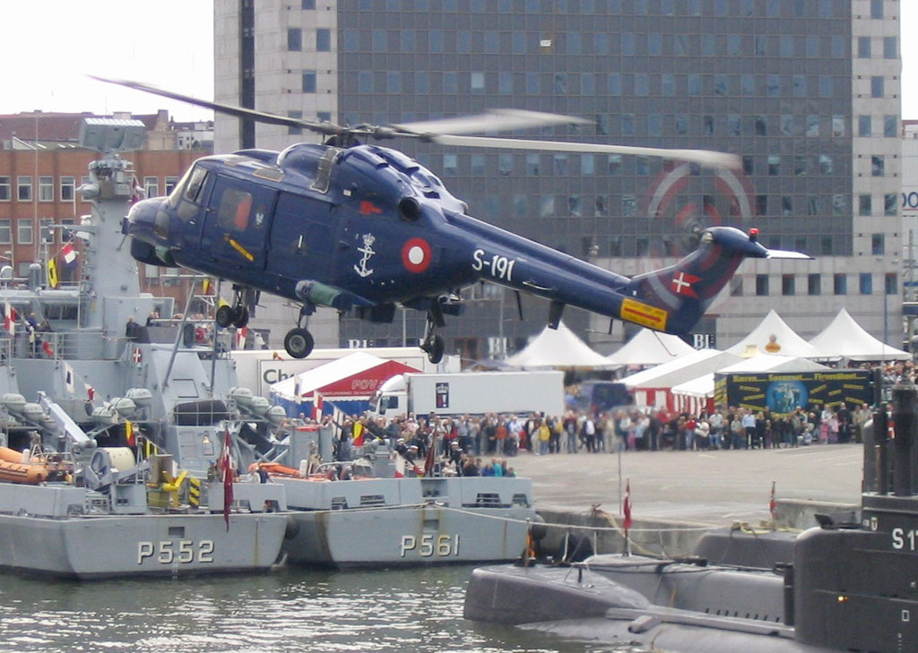 Royal Danish Navy Westland Lynx. Århus harbour, Jutland, Denmark 2003. /PAJ